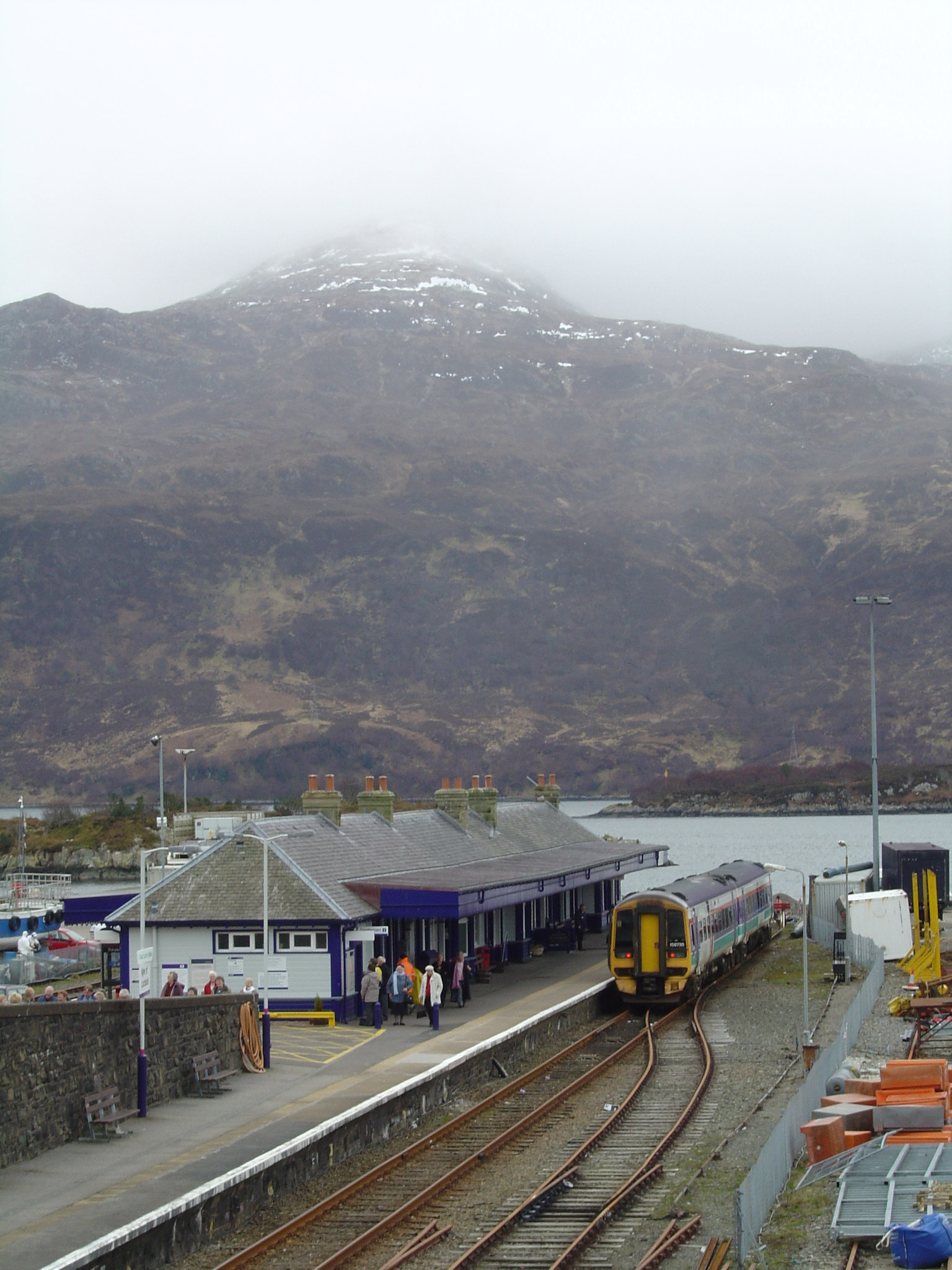 158735 at Kyle of Lochalsh station